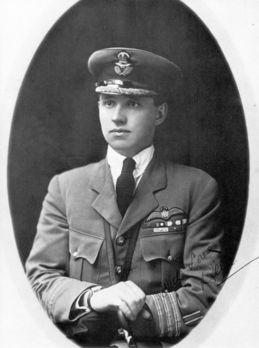 Photograph of Lieutenant Colonel William George Barker VC in interim RAF uniform which dates the photo to the period April 1918 to August 1919.